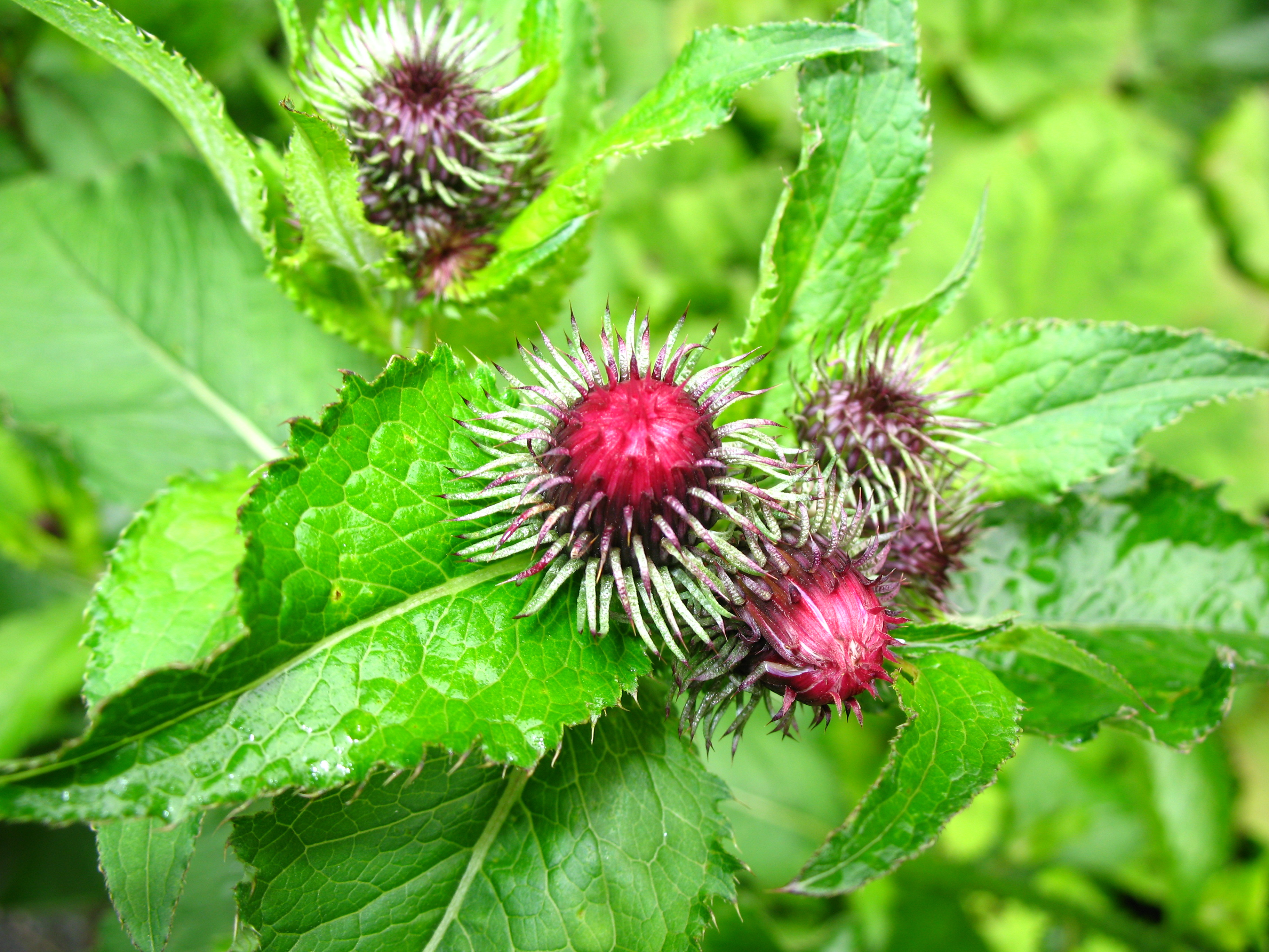 Carduus personata, Hohe Tauern National Park, Austria